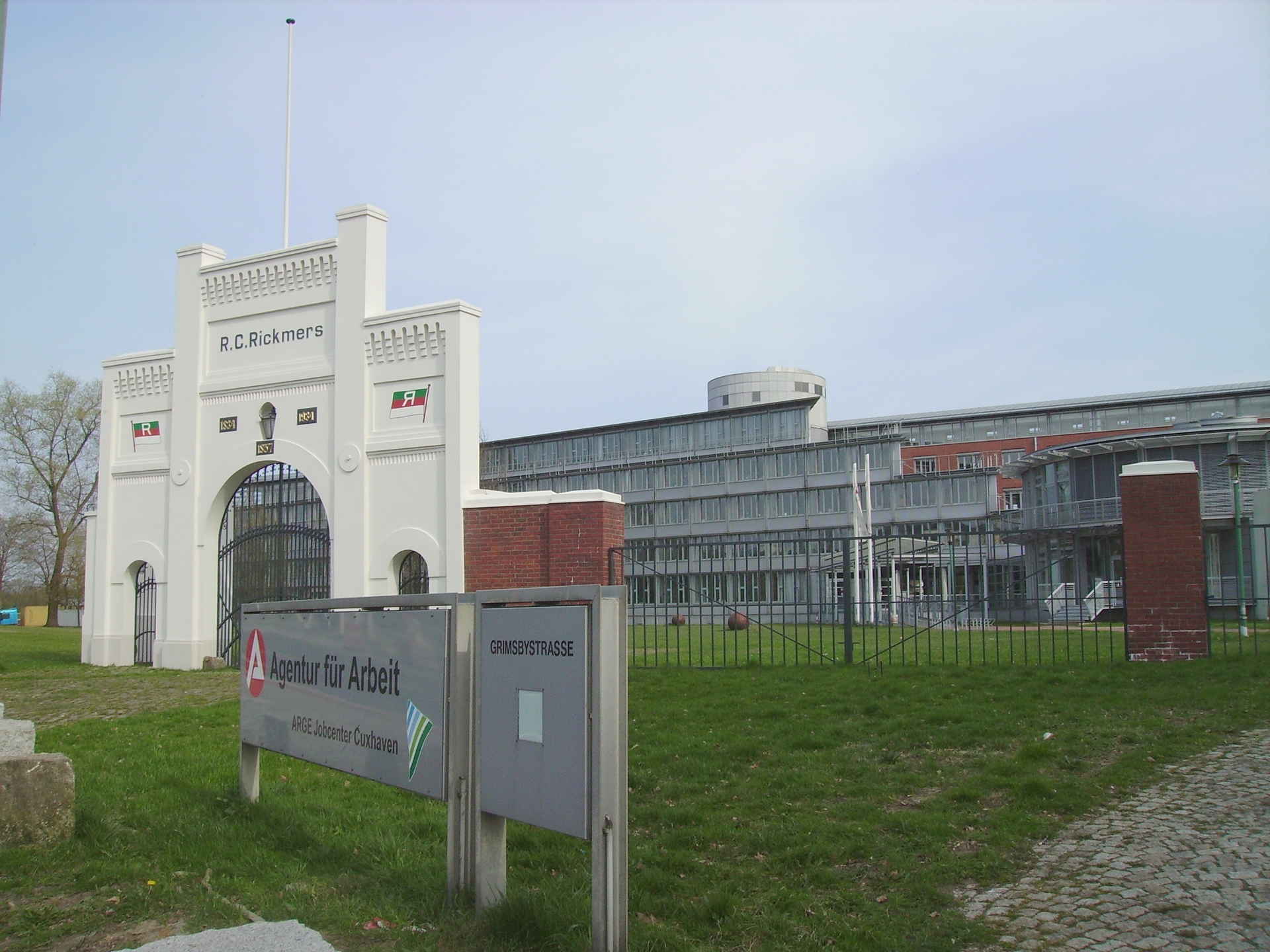 View of the office of the Federal Employment Office in Bremerhaven, Germany. The gate is from a shipyard which does not exist any more.